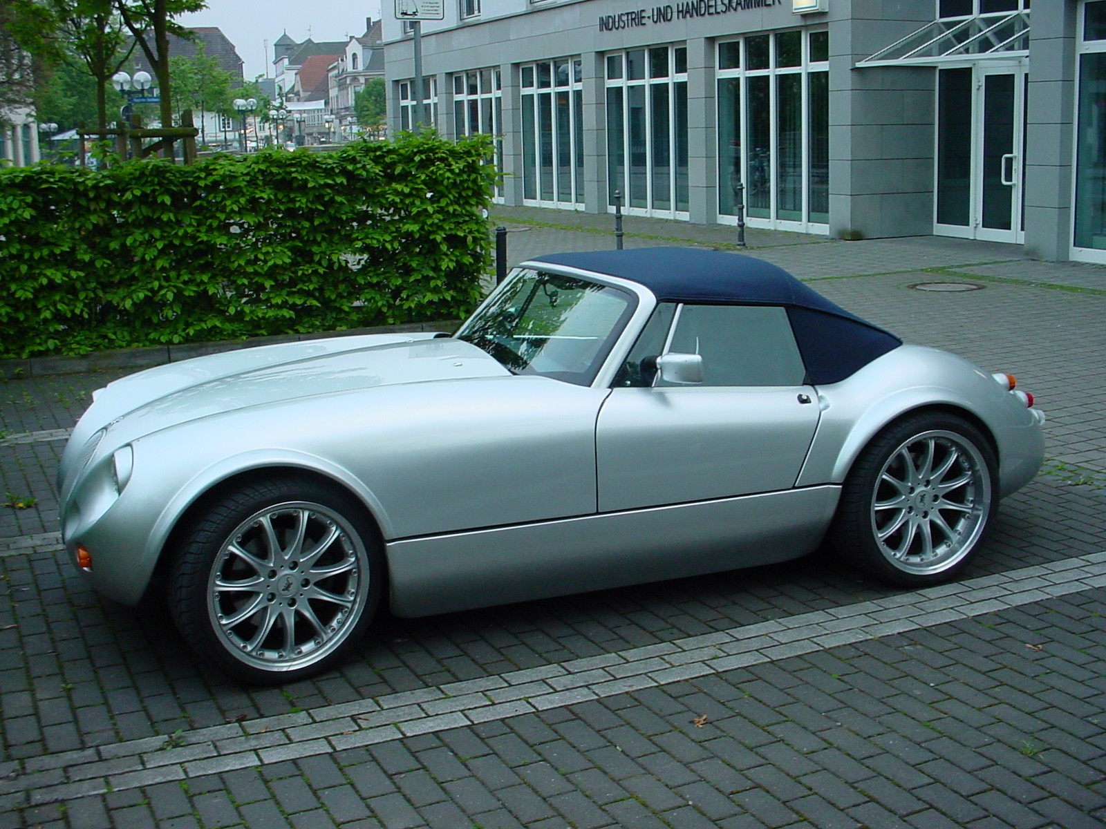 Wiesmann Roadster Side view